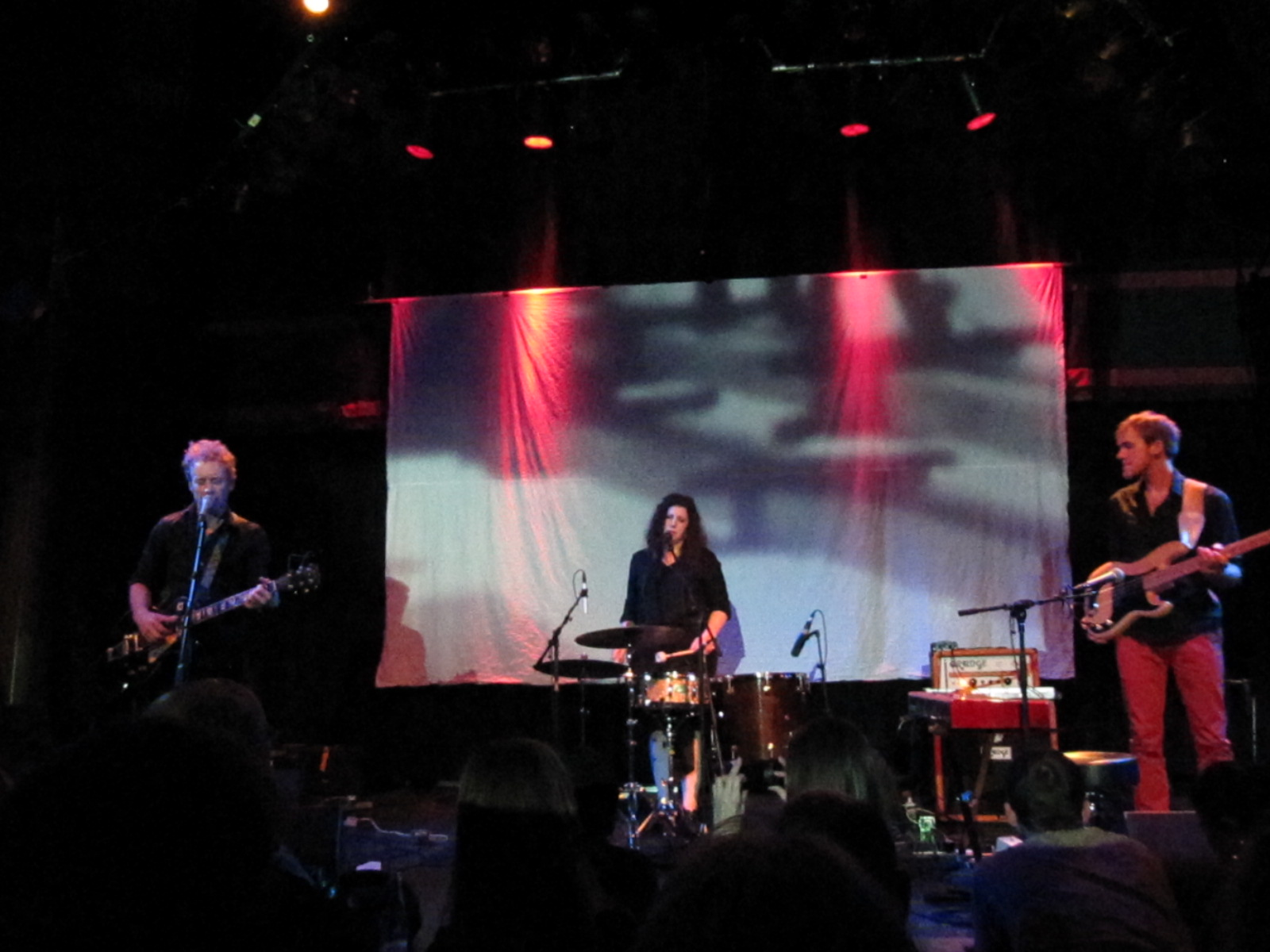 Low performing in Manufaktur, Schorndorf in 2013